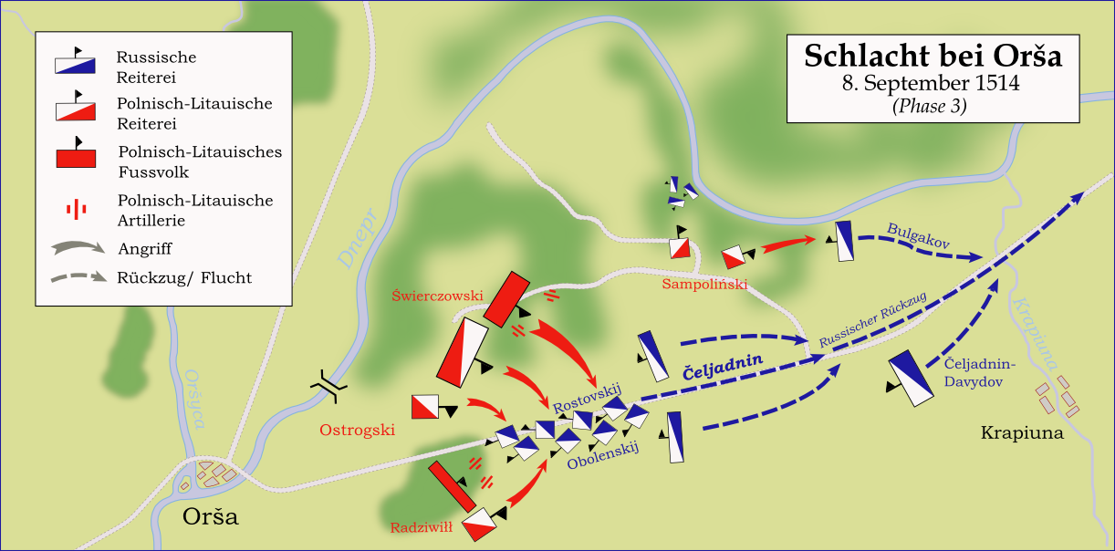 German Map showing the Battle of Orsha 1514 (Part 3) between the forces of the Grand Duchy of Lithuania and Kingdom of Poland and the army of Muscovy. The work was done by Inkscape and is based on a Museum-Table, photographed and uploaded here, but modified to seperate the conduct of the battle into three parts.